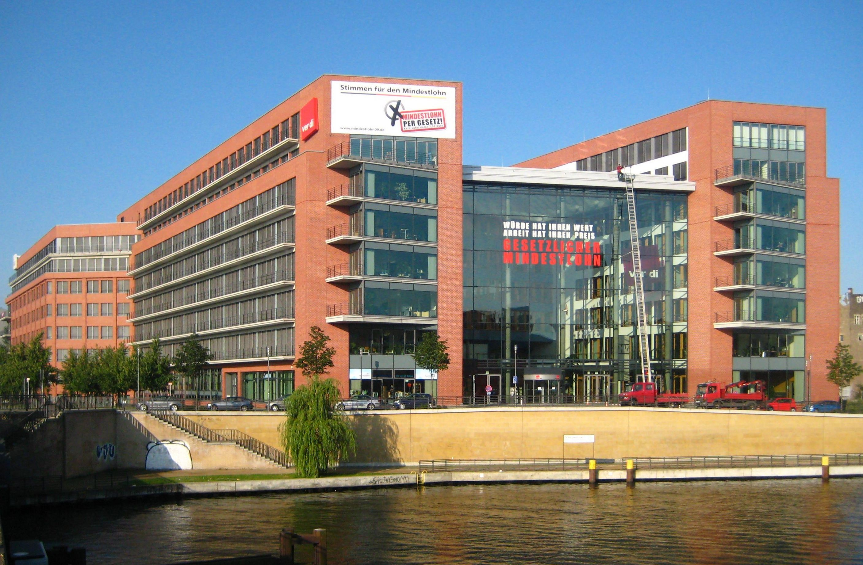 Central administration building of the German trade union Verdi (an abbreviation of "Vereinigte Dienstleistungsgewerkschaft" - "United Services Union") on Paula-Thiede-Ufer, corner of Engeldamm (on the left) in Berlin-Mitte. The building was constructed 2002 to 2004 to a design by the architects Michael Kny and Thomas Weber. The main wing on Paula-Thiede-Ufer is used by Verdi's federal administration office and the federal executive board, the wing on Köpenicker Straße by the state district office for Berlin-Brandenburg and by the district office for Berlin.